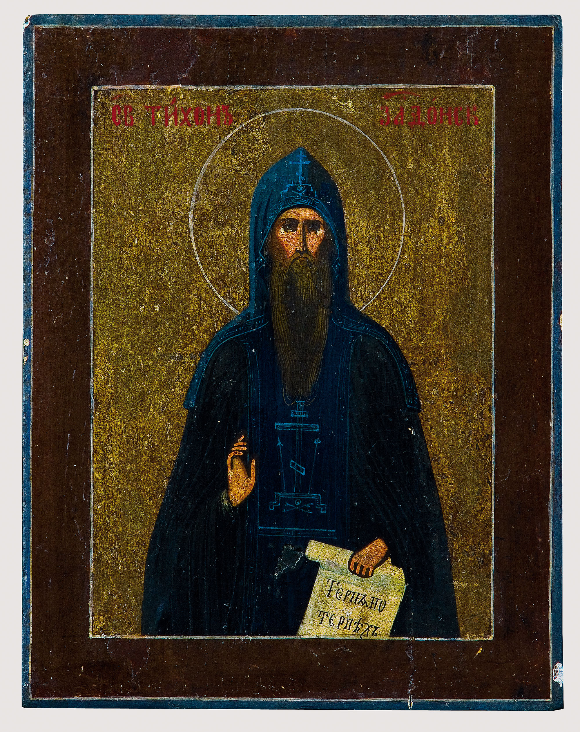 St. Tikhon of Zadonsk. Tempera on wood panel. The background is made of silver, covered by golden lacquer. Shown in half-length in monk's attire. Russian, 2nd half of the 19th century. 17.8 x 14.3 cm. Russland, 2. Hälfte 19. Jh.